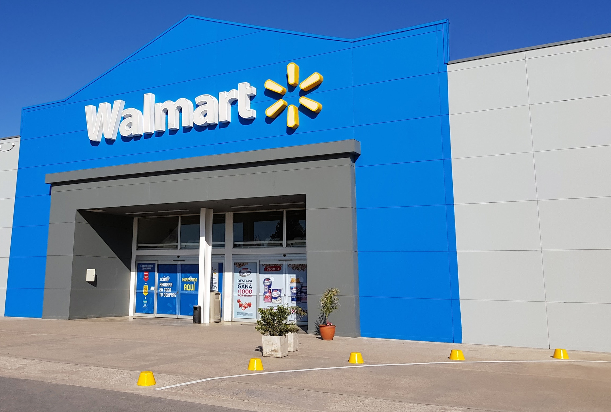 A Walmart Supercenter in Buenos Aires, Argentina